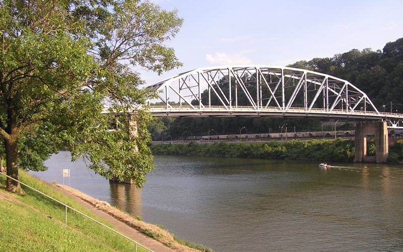 Kanawha River; downtown Charleston, West Virginia; July 2008.